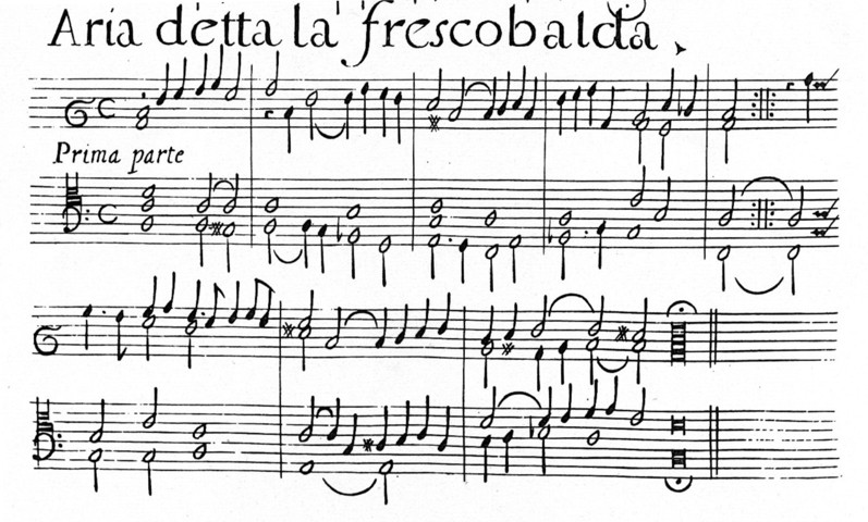 Facsimile of the theme from Aria detta la Frescobalda, from Toccate II (1637), by Girolamo Frescobaldi (1583-1643).